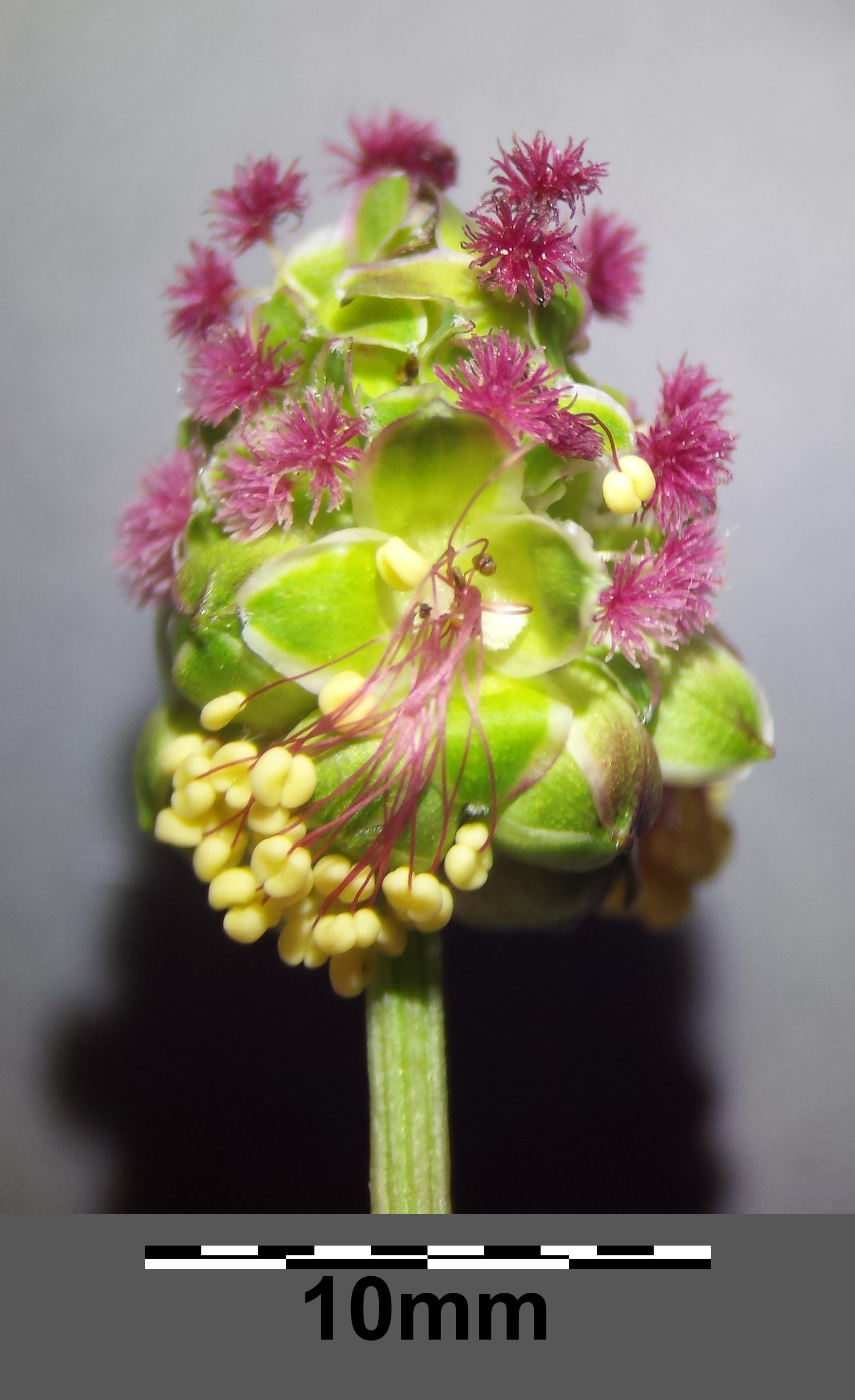 Capitulum Taxonym: Sanguisorba minor subsp. minor ss Fischer et al. EfÖLS 2008 ISBN 978-3-85474-187-9 Location: next to Strebersdorf, Floridsdorf, Vienna - ca. 160 m a.s.l. Habitat: fallow land